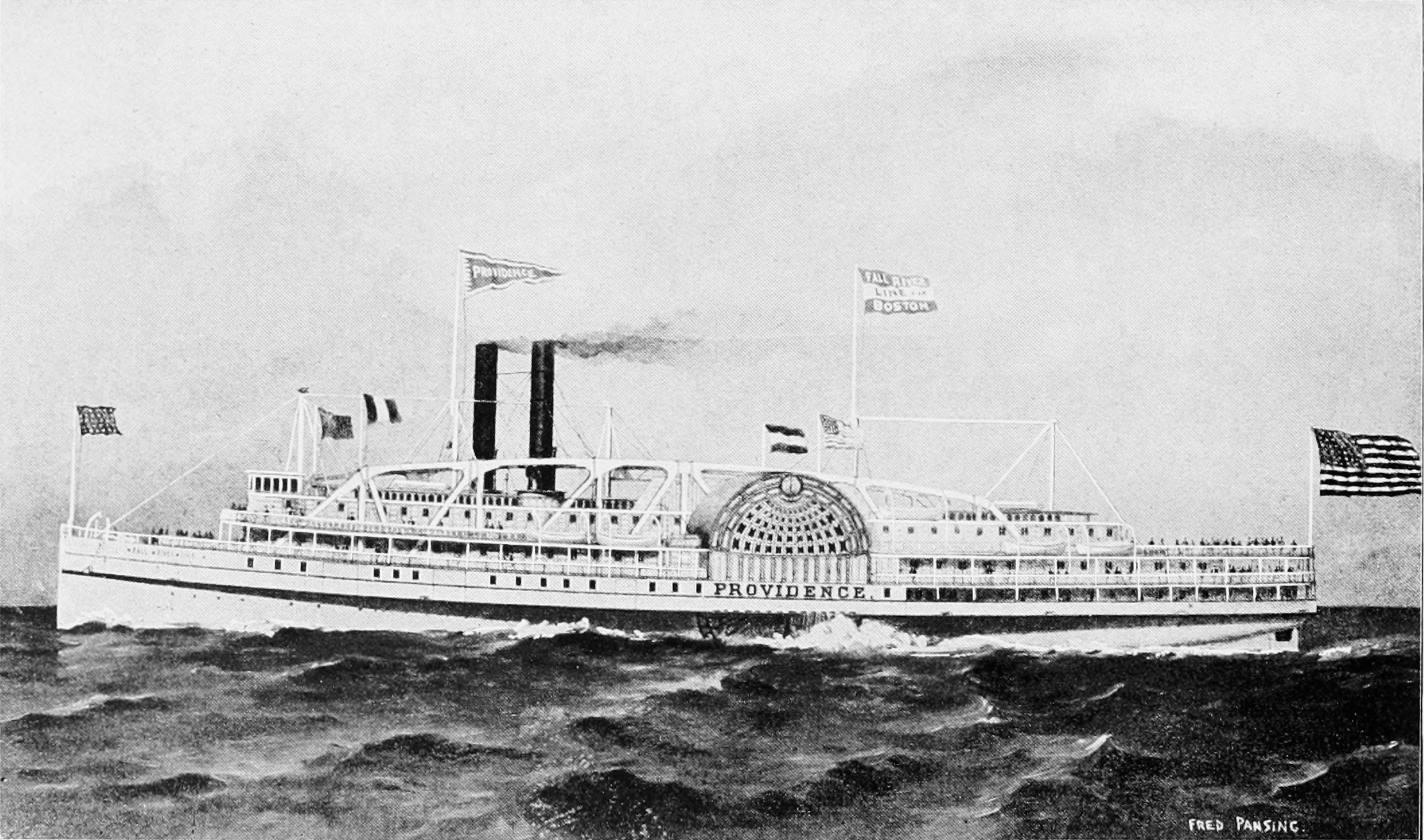 A painting of the Fall River Line's steamboat Providence (launched 1866).